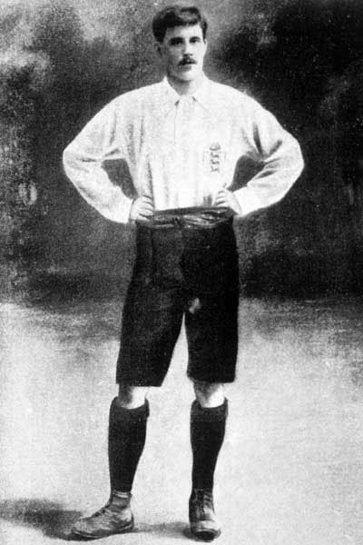 Vivian John Woodward (3 June 1879 - 31 January 1954) was an English amateur football player who enjoyed the peak of his career in the late 1900s and early 1910s.